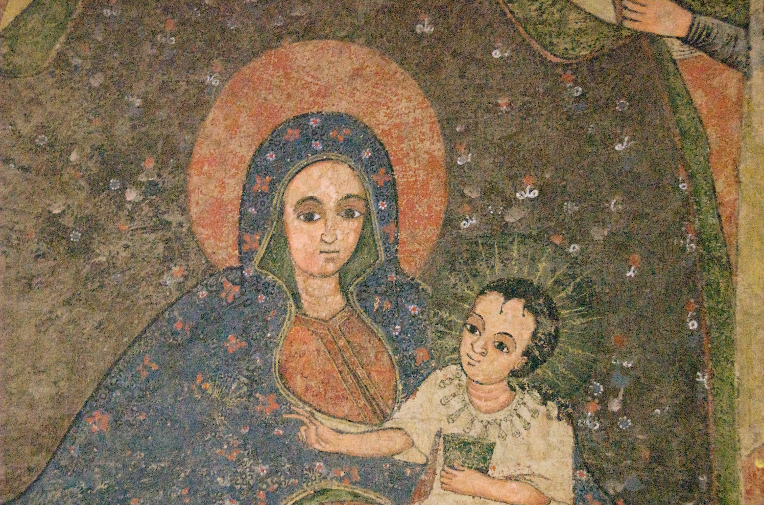 In the collection of the National Museum, Addis Ababa, Ethiopia. I've complied with restrictions on the use of flash, and taken photos only when permitted by the museum.